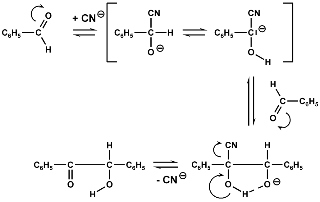 Mechanism of Benzoin condensation